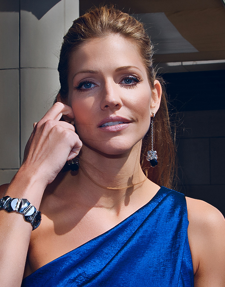 Tricia Helfer at the 2010 Toronto International Film Festival.